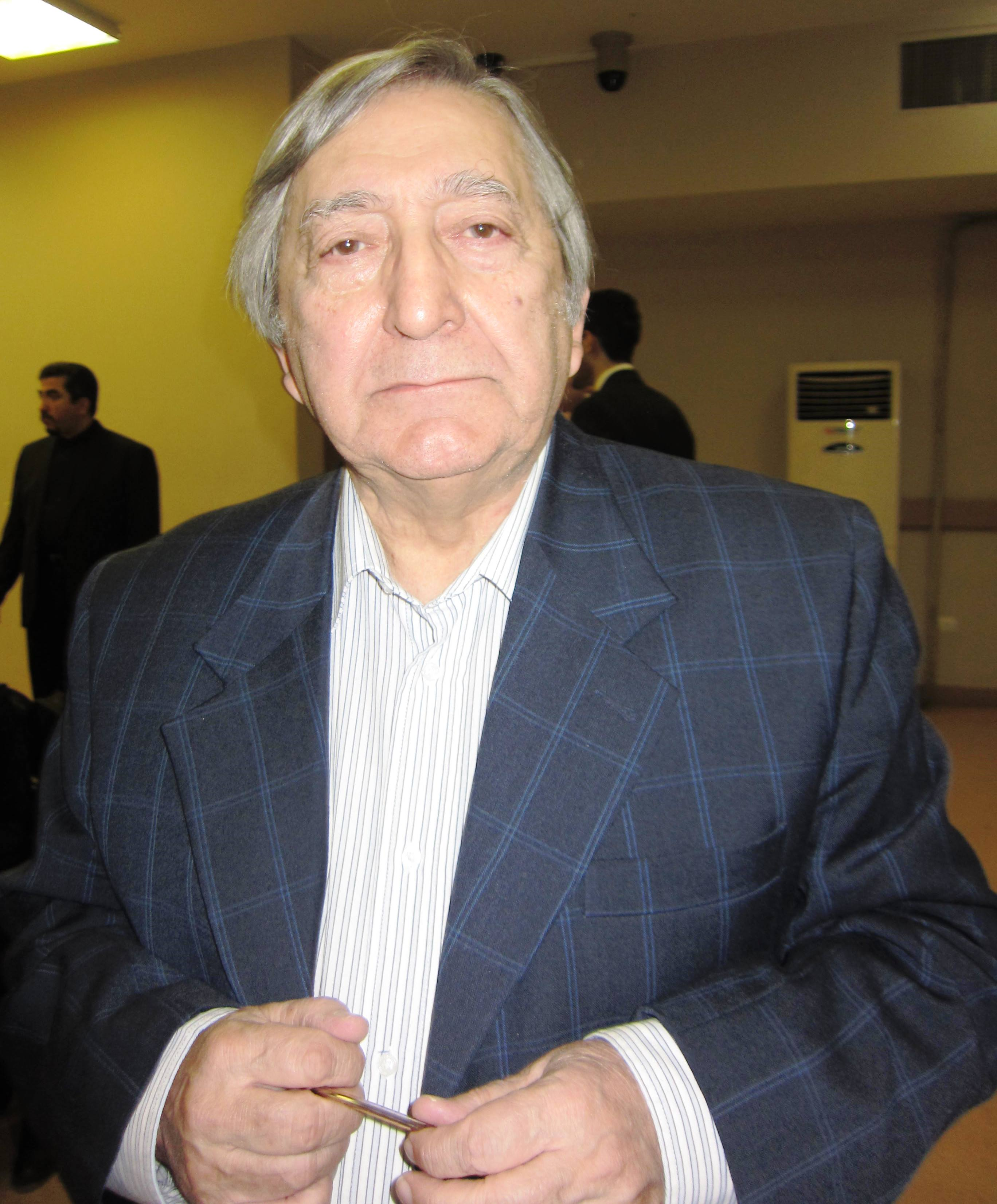 Alireza Mashayekhi at the 30th Fajr International Music Festival, 19 February 2015